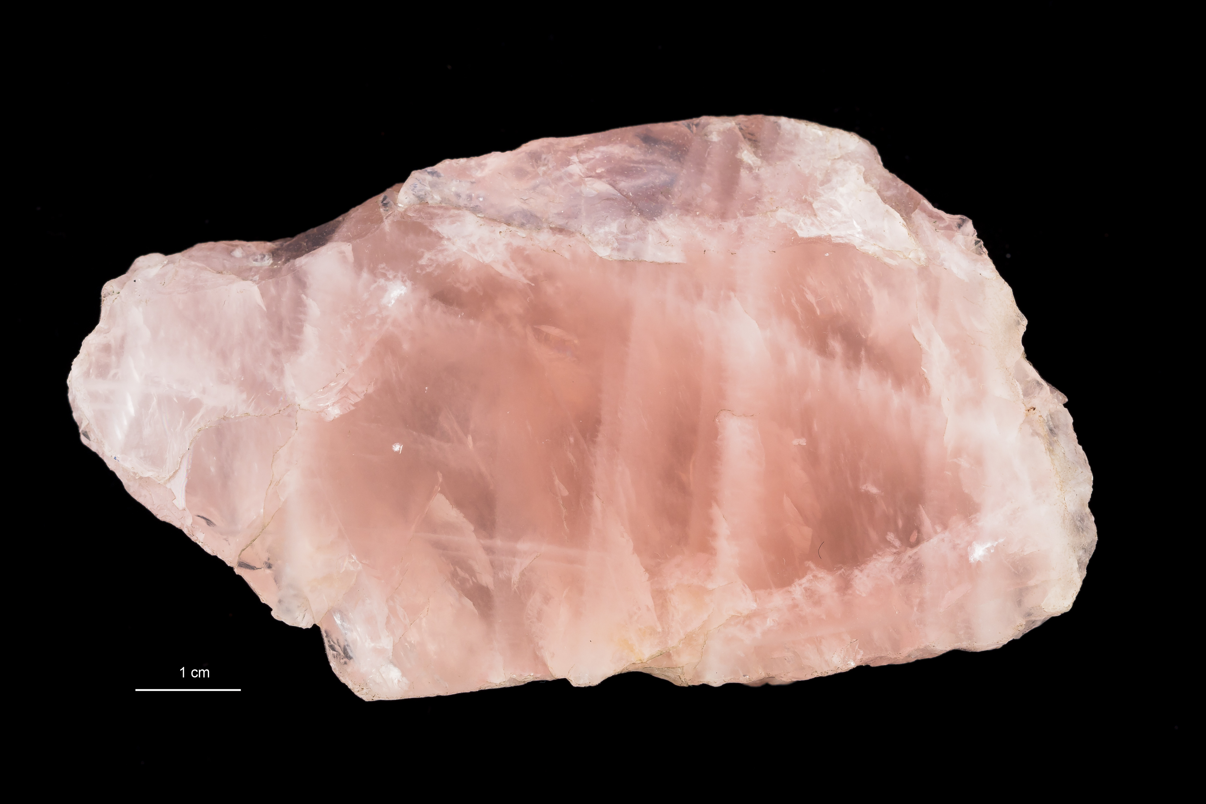 "kvarts", "roosakvarts". More info about this file and about this specimen at